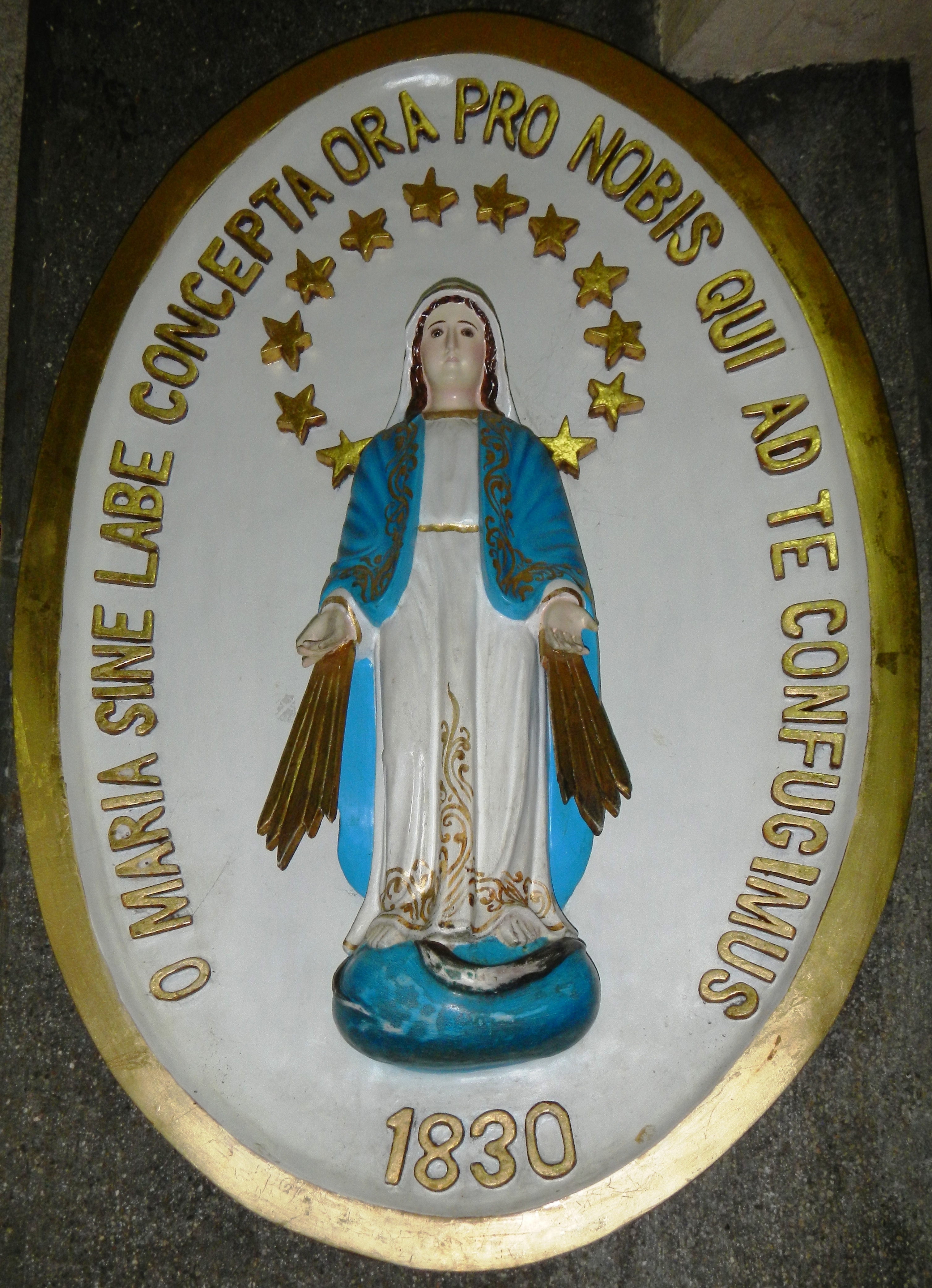 Our Lady of the Miraculous Medal National Shrine and Parish (Sucat, Muntinlupa City) in District 2, Barangay Cupang, Posadas Village, Sucat, Muntinlupa City, [1] National Capital Region 1770.